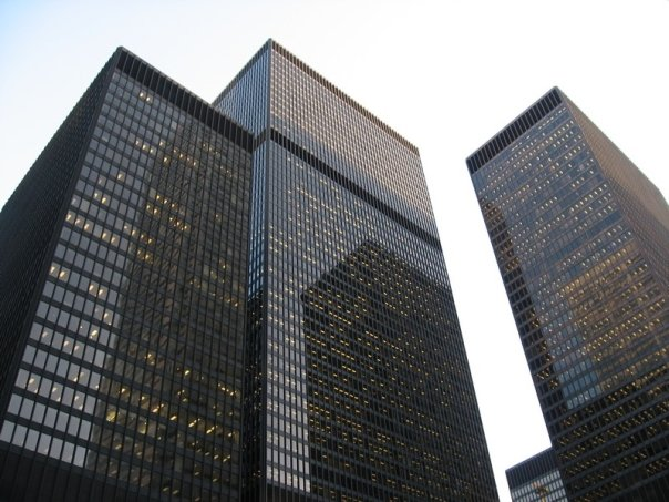 Mies Van der Rohe, downtown Toronto